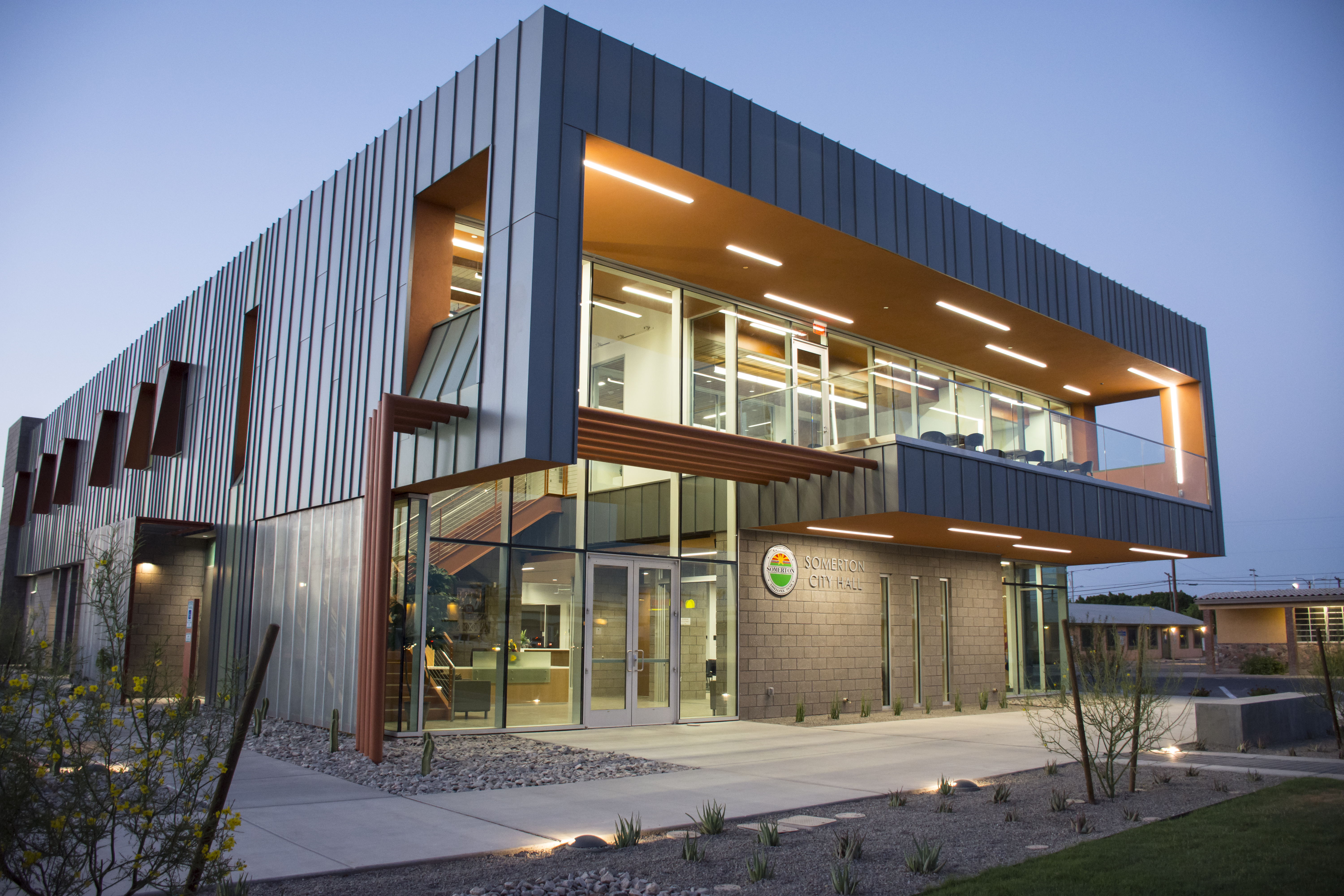 Somerton City Hall (City government office), 143 N State Avenue Somerton Az 85350